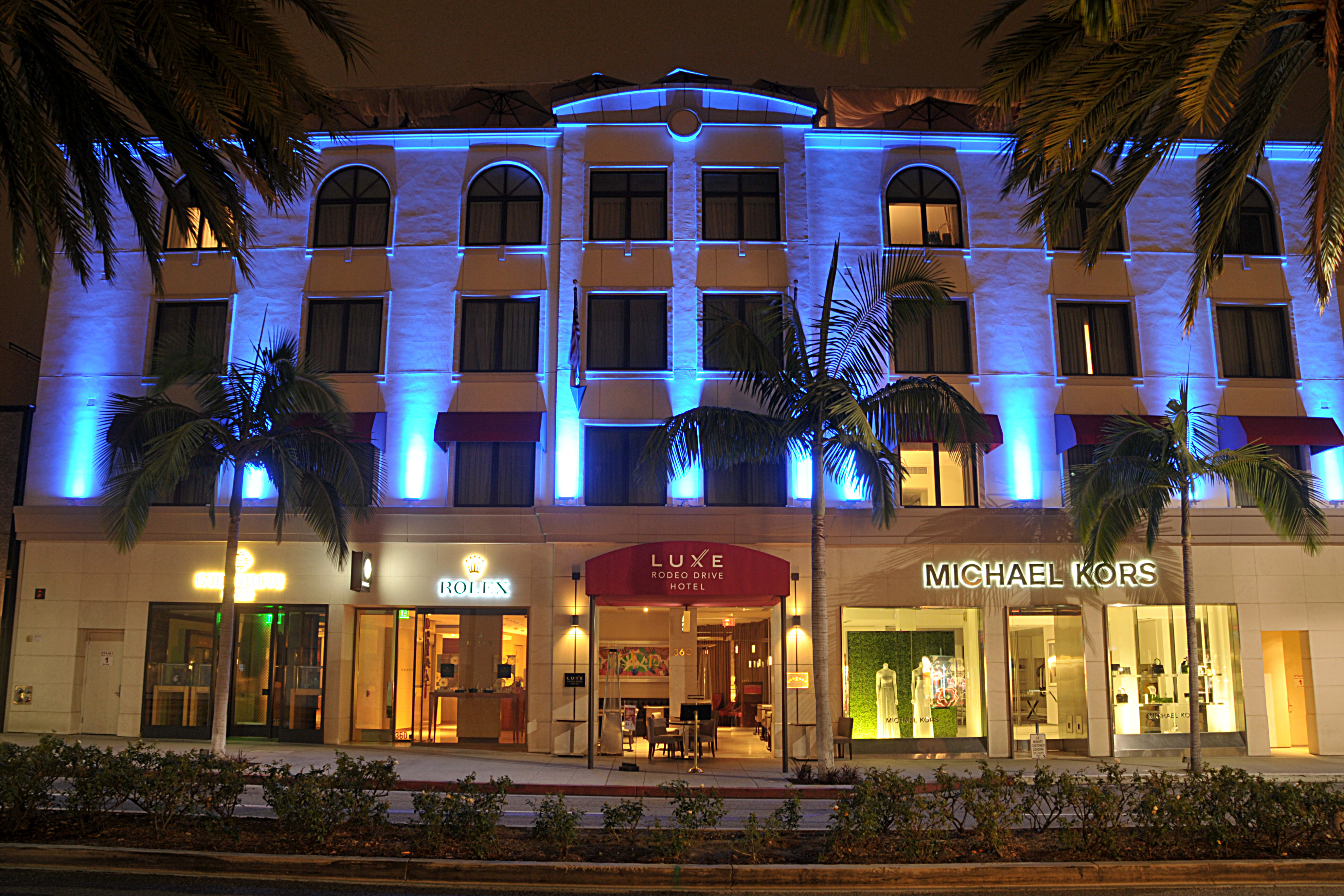 Luxe Rodeo Drive Hotel, Beverly Hills, California - Photo by Glenn Francis of